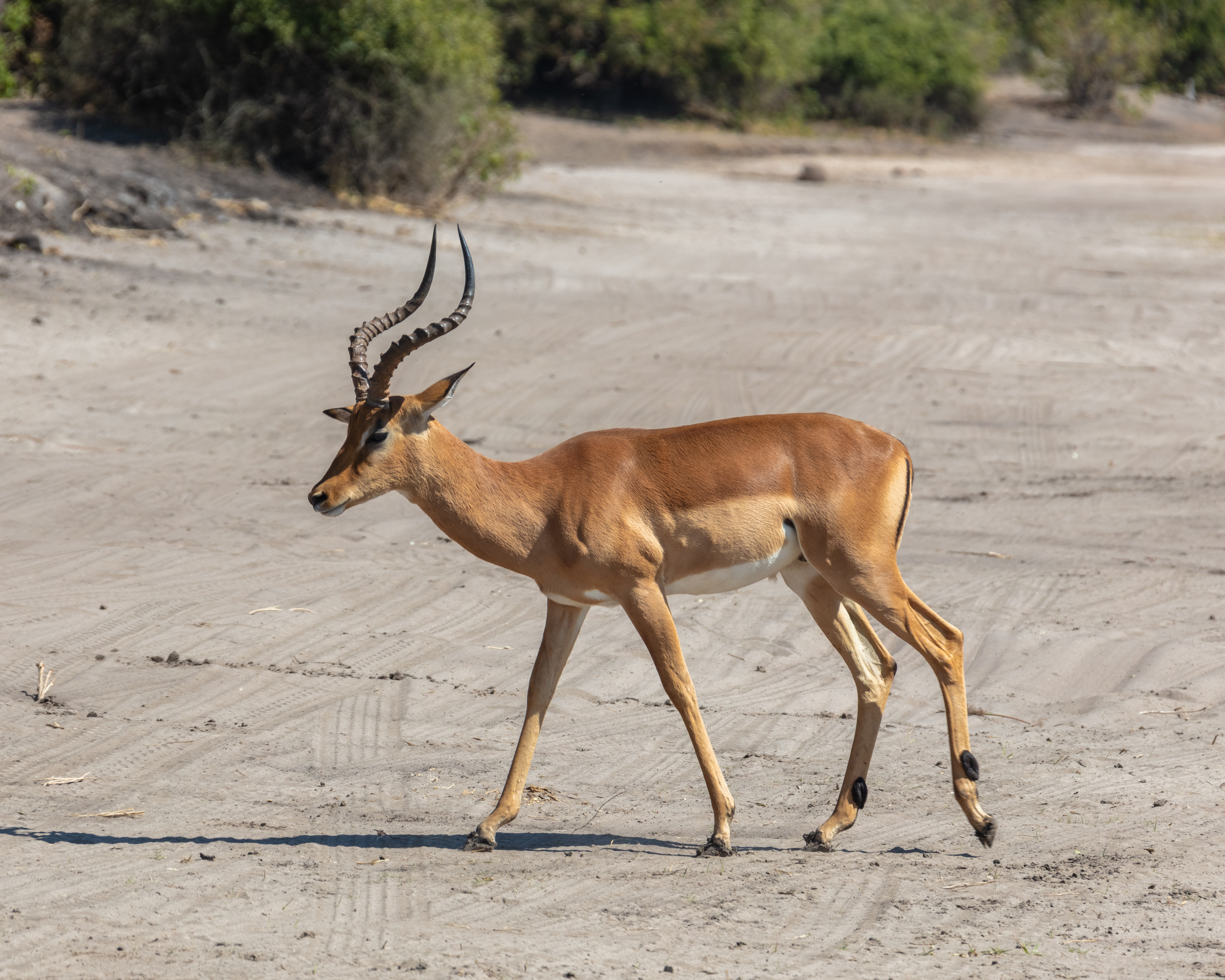 Impala (Aepyceros melampus), Chobe National Park, Botswana